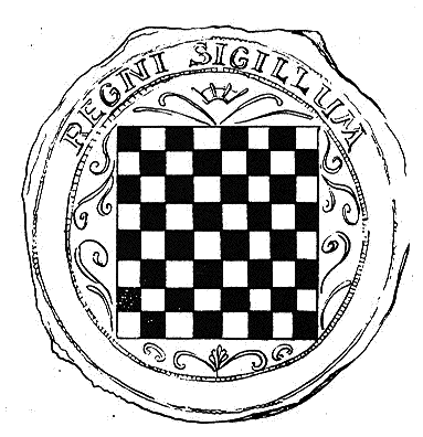 Regni Sigillum, the seal of the Kingdom of Croatia and Dalmatia of 1527, with the coat of arms of Croatia (from the Chart of the Cetingrad Sabor which decided the Habsburg as the rulers of Croatia) / Regni Sigillu, pečat Kraljevstva Hrvatske i Dalmacije iz 1527 s prikazom hrvatskoga grba, pečat Cetinskoga Sabora.